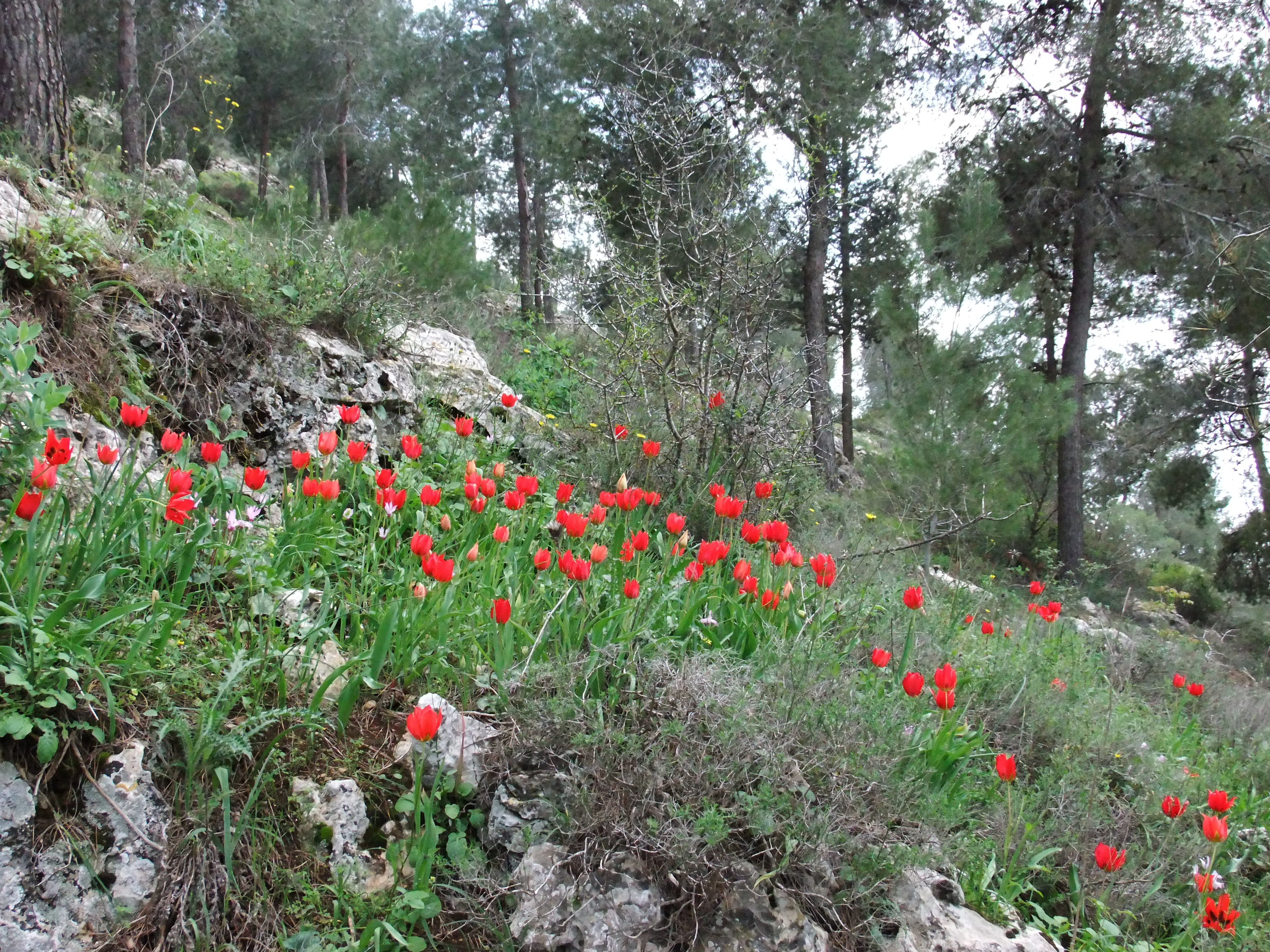 Tulips